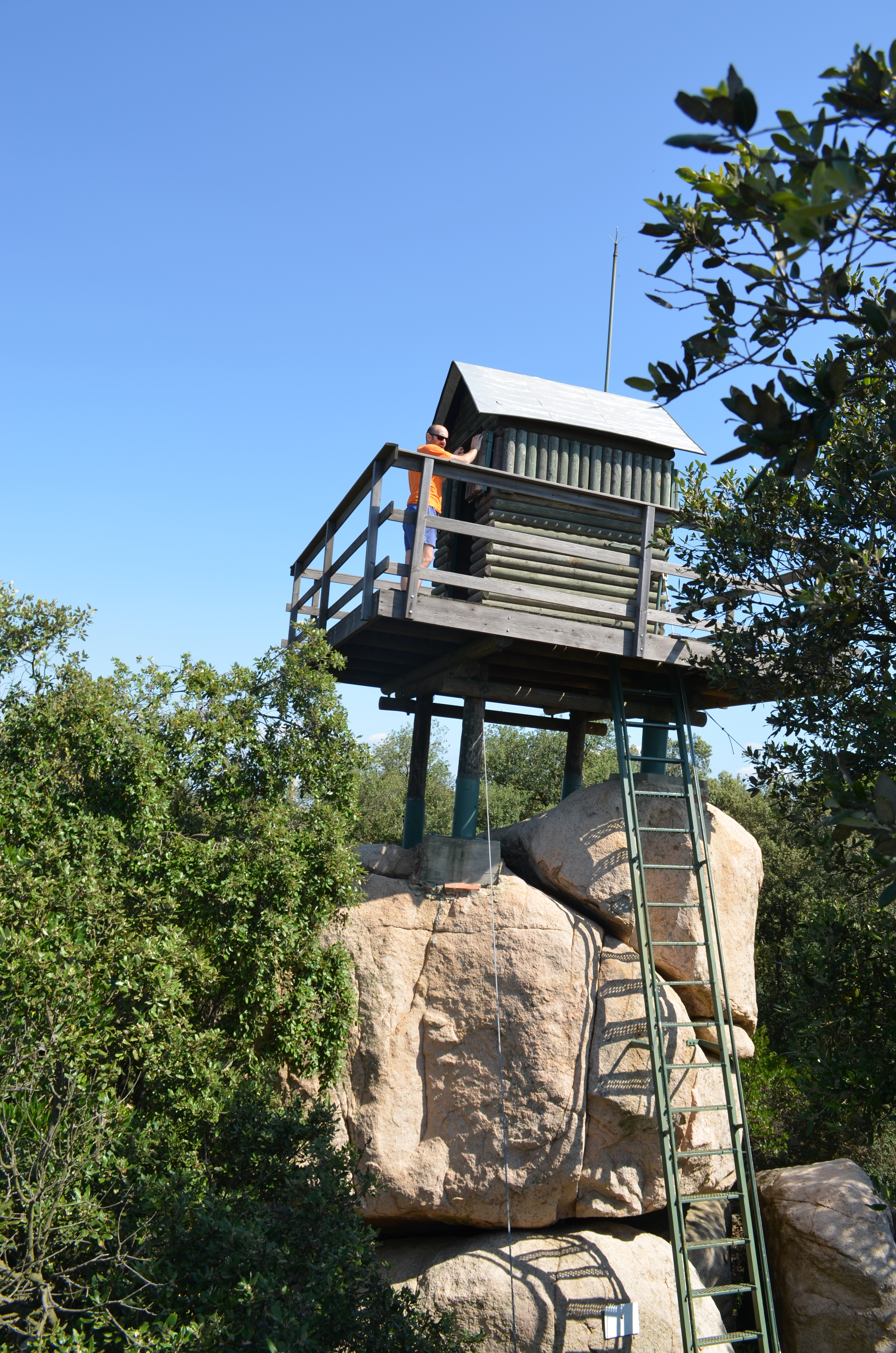 Puig de les Cadiretes, fire observation tower